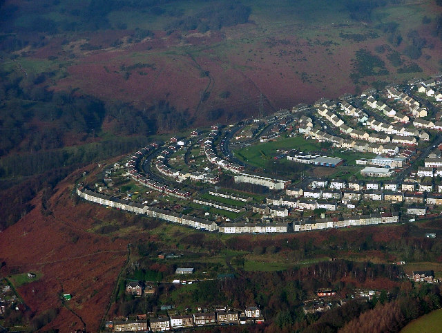 Swffryd. Swffryd from the air (this is the site of the original Crumlin viaduct, made famous by the film 'Arabesque' starring Gregory Peck and Sopia Loren )Thanks to mike Hale for the info.